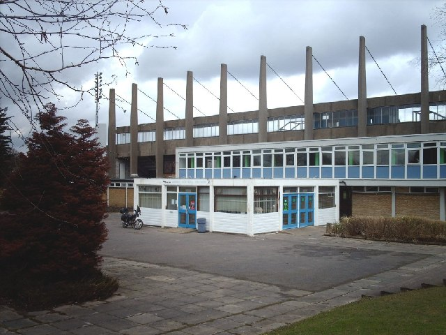 Barnet Copthall Stadium. Entrance to Copthall Stadium.